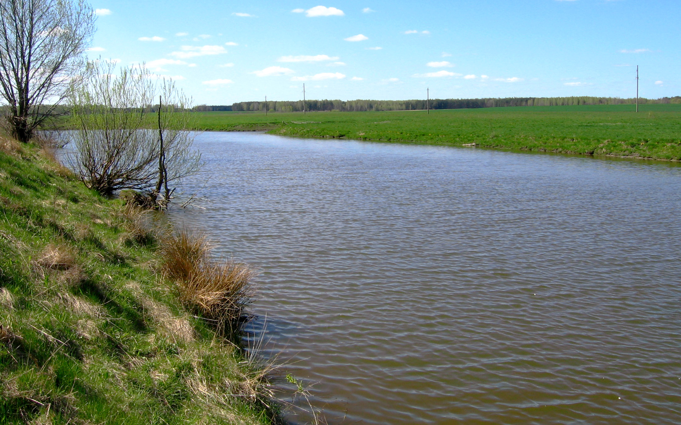 Ut (Vuts) River in its Middle Flow, Homel Voblast